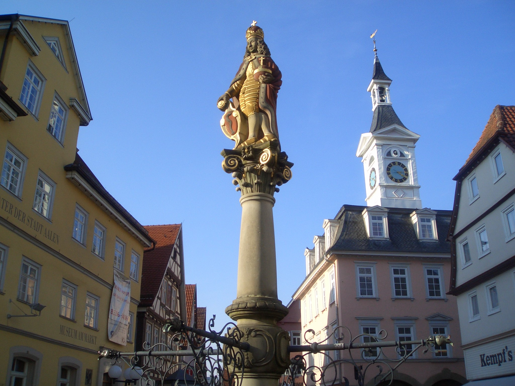 Statue of Joseph I, Holy Roman Emperor, at the fountain on market square in Aalen, Germany. Original description was: A photo I took while traveling to Aalen, Germany.